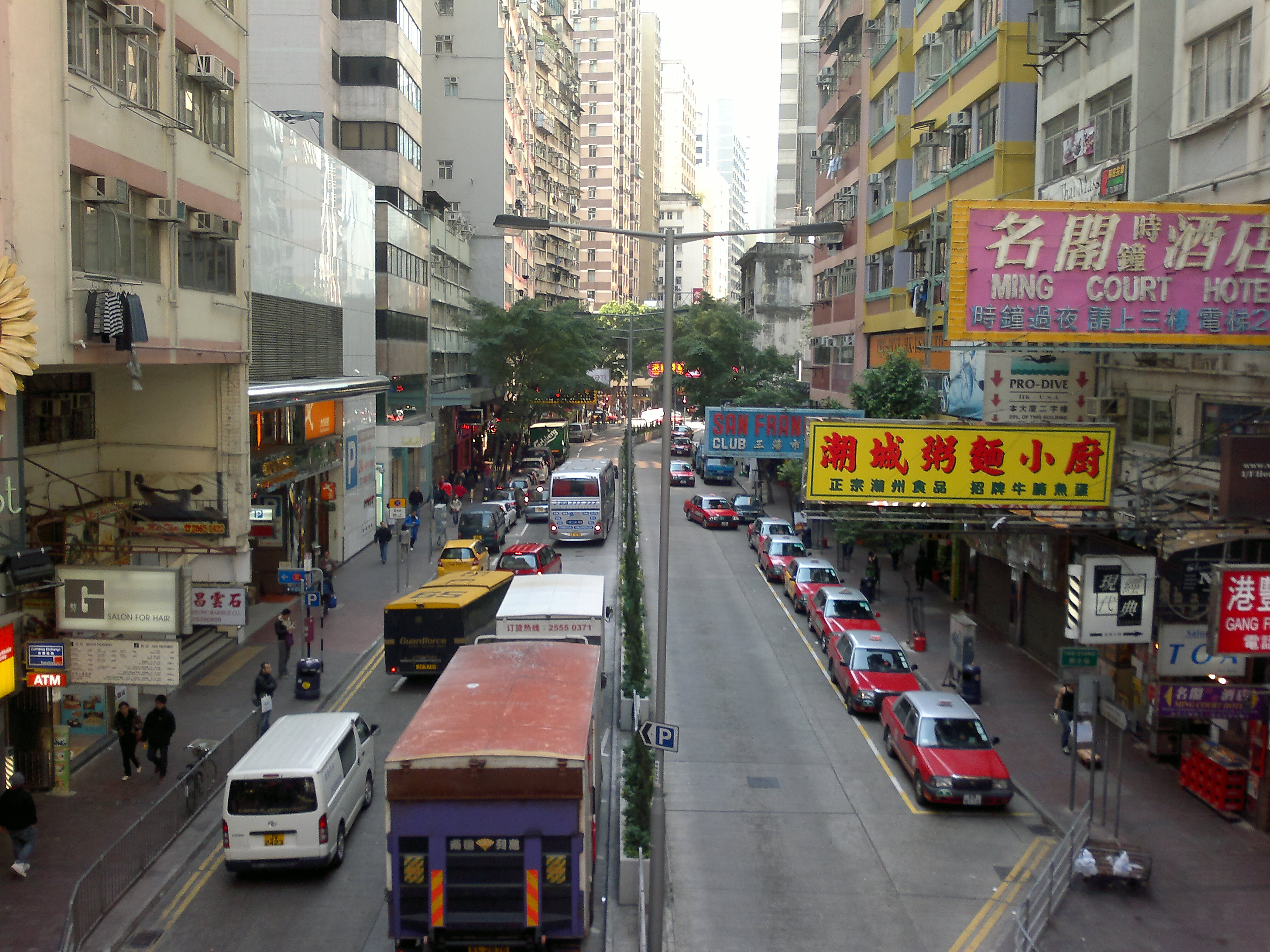 Lockhart Road towards Luard Road